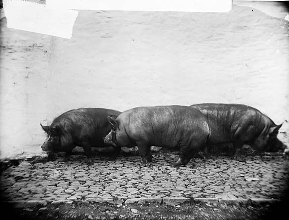 1 negative : glass, dry plate, b&w ; 16.5 x 21.5 cm.